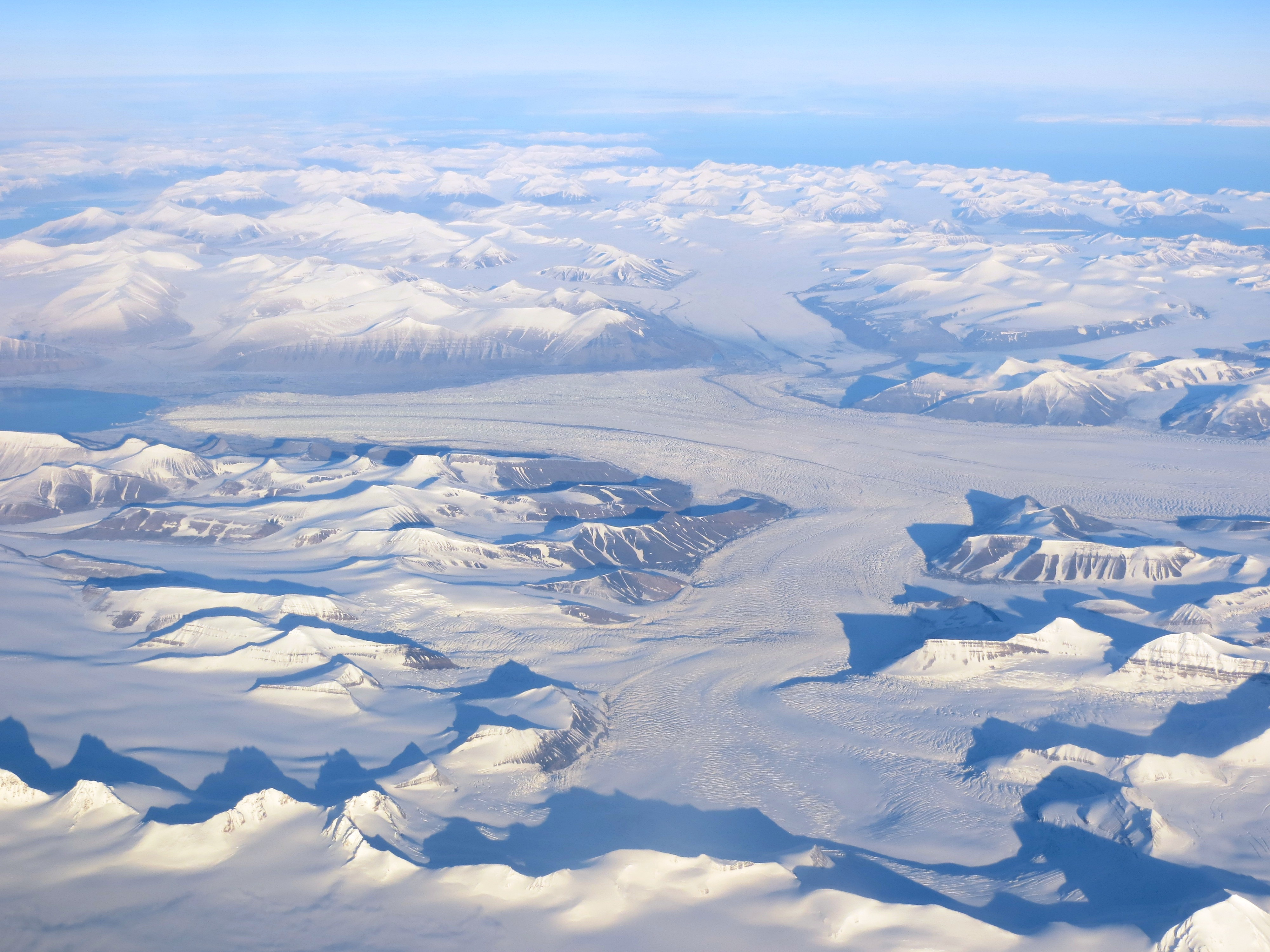 Aerial photo from Torell Land, southeastern Spitsbergen, Norway. Photo taken from the west. The large glacier that goes from right to left in the center is Nathorstbreen, and the glacier in the lower half of the picture is its tributary Zawadzkibreen (not Polakkbreen, which is off the right edge of the image. In the background is Doktorbreen (left) and Liestølbreen (right).